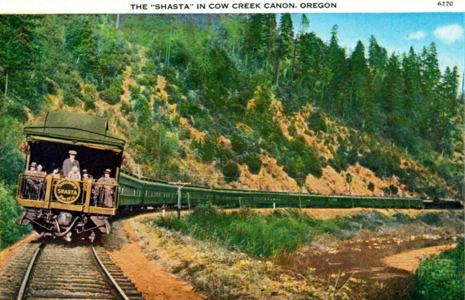 Postcard photo of the Southern Pacific train "Shasta" in Cow Creek Canyon.